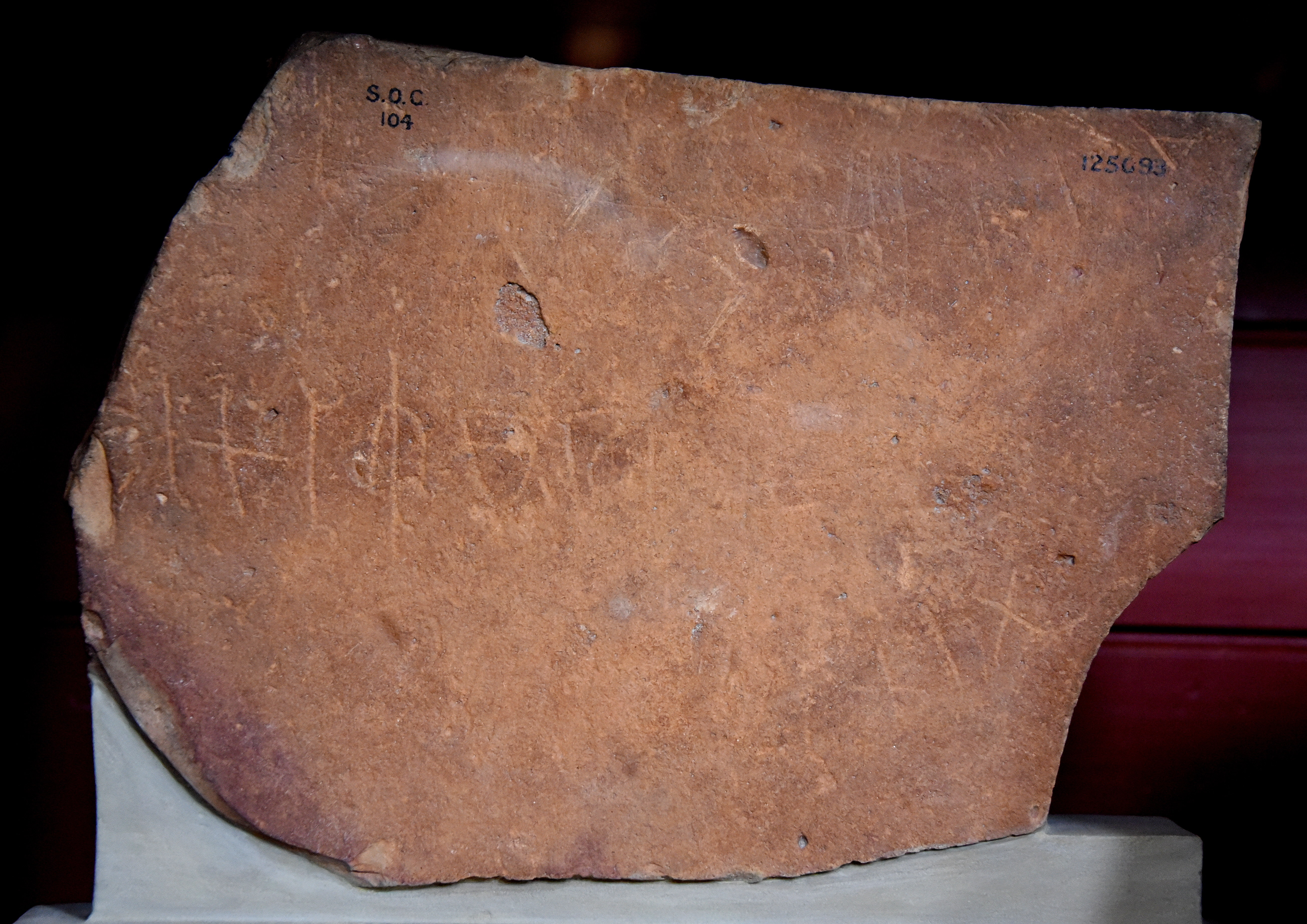 The name "Taggum" appears (in a Safaitic script) and the figure of the camel is indistinguishable. Red sandstone. From es-Safa, modern-day Syria. Donated by Miss Gertrude Bell CBE. It is currently housed in the British Museum in London.